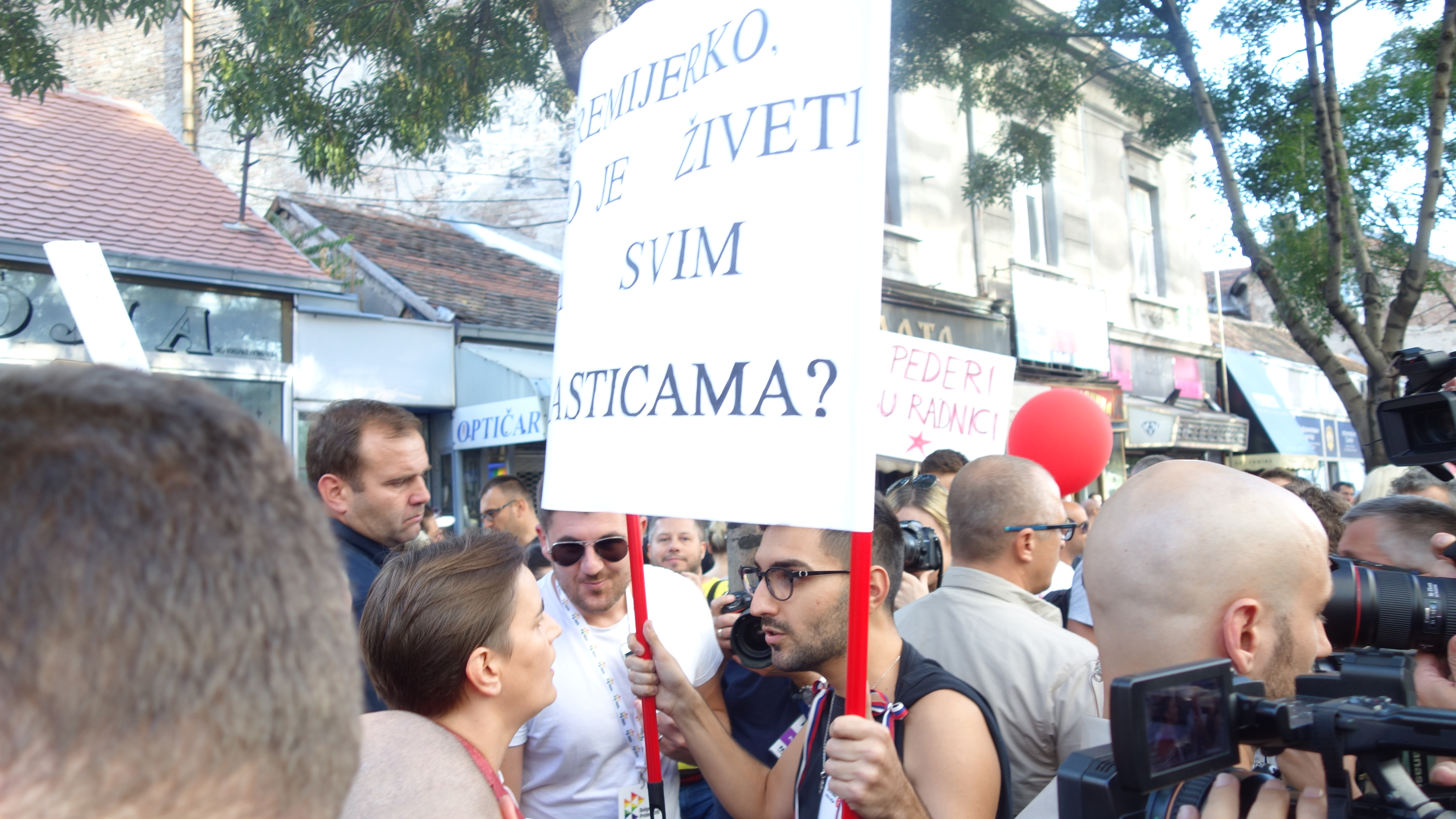 Belgrade’s eighth Pride Parade took place on September 15th, 2019. Thousands take part in Belgrade Pride marching under the slogan ‘’I’m not giving up’’. Many pride participants are disappointed with Ana Brnabić's contribution to the LGBT+ rights in Serbia. Српски (ћирилица): Осма београдска парада поноса на којој је учествовало више хиљада људи одржана је 15. септембра под слоганом "Не одричем се". Многи учесници параде поноса сматрају да Ана Брнабић није дала никакав допринос правима ЛГБТ+ особа у Србији.